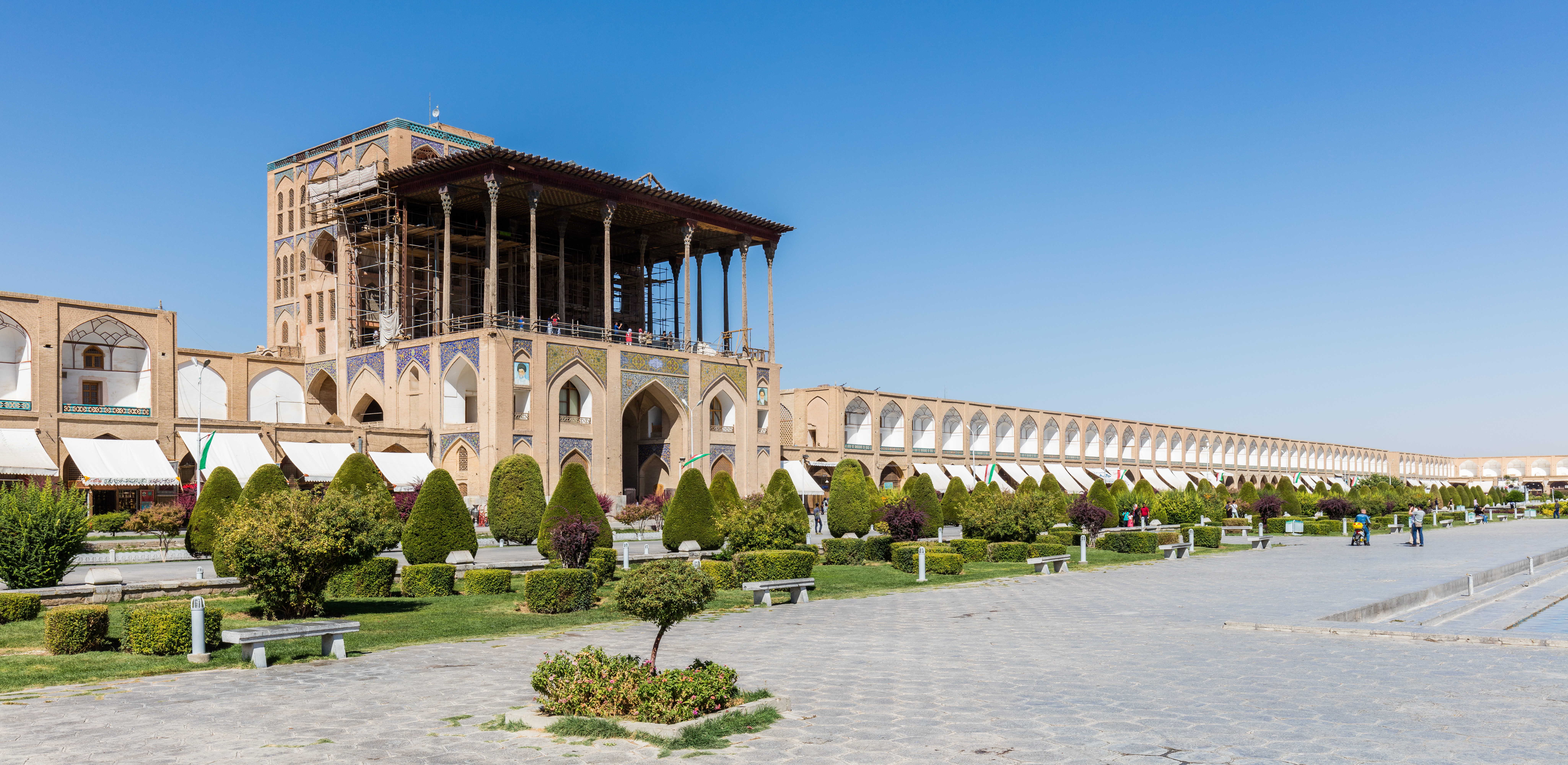 Aali Qapu ("Great Gate") Palace, Isfahan, Iran. The name Great Gate was given to this place as it was right at the entrance to the Safavid palaces which stretched from the Naqsh e Jahan Square to the Chahar Baq Boulevard. The building, another wonderful Safavid edifice, was built by decree of Shah Abbas I in the early seventeenth century and is 48 metres (157 ft) high with six floors, each accessible by a difficult spiral staircase. It was here that the great monarch used to entertain noble visitors, and foreign ambassadors.